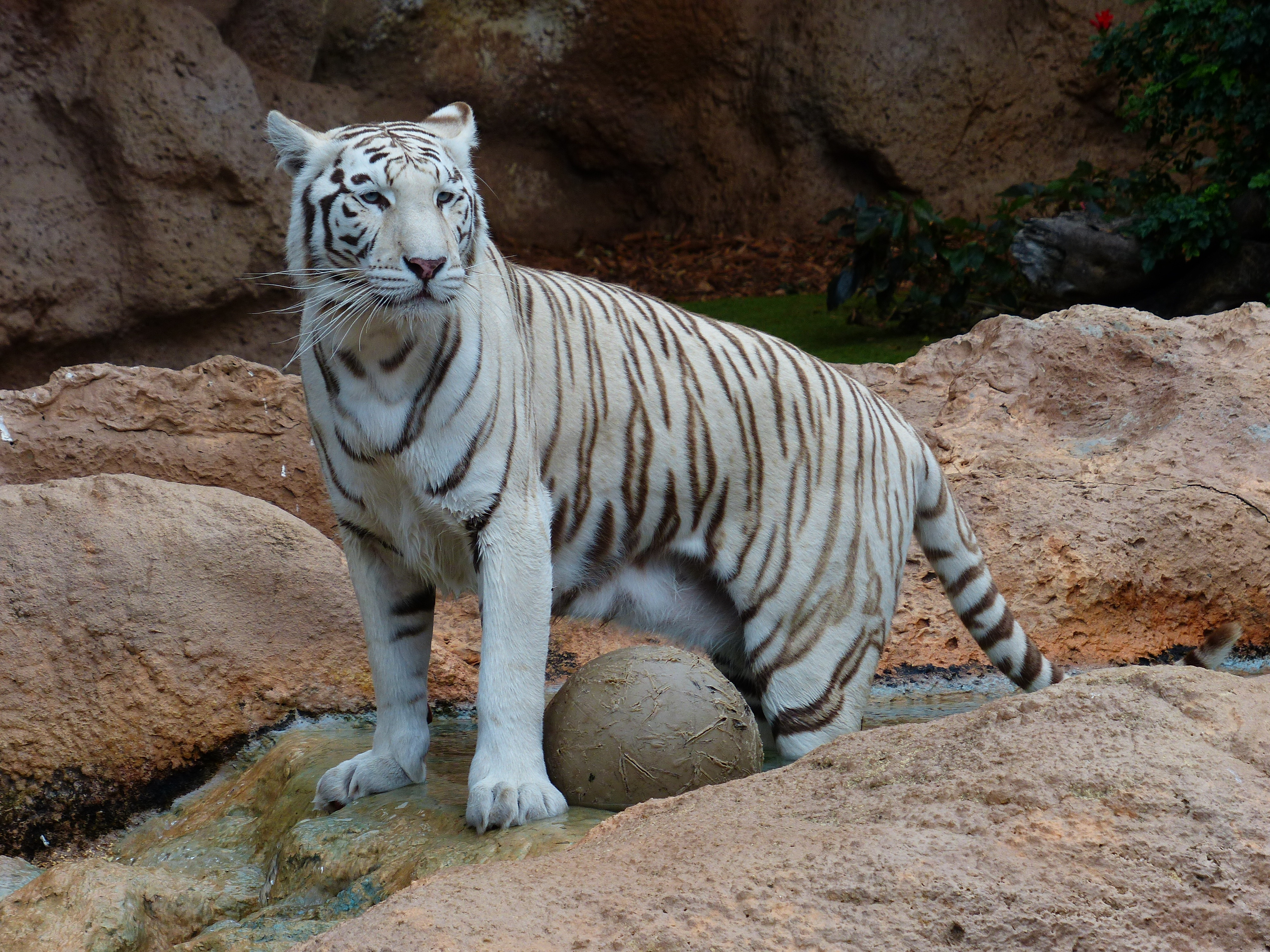 White Bengal tiger